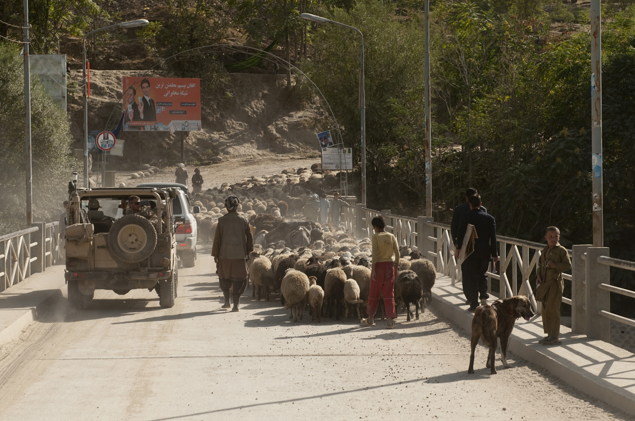 FEYZABAD, Afghanistan - German Soldiers of the Mobile Observation and Liaison Team (MOLT) from Provinicial Recontruction Team Feyzabad wait atop a bridge as a shepherd herds his sheep through the village. Members of the MOLT conduct patrols in the villages of Badakhshan to ensure security of it's forces and Afghan civilians. Official photo by Petty Officer 1st Class Ryan Tabios, ISAF HQ Public Affairs.